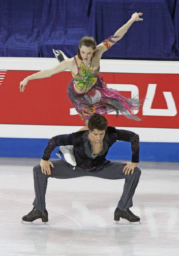 Tessa Virtue & Scott Moir (CAN) perform a dance lift during their free dance program at the 2009 Four Continents Championships. They placed 2nd in this segment of the competition and 2nd overall.